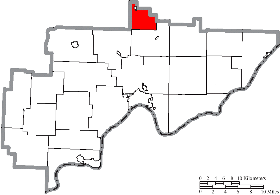 Map of the municipal and township boundaries of Washington County, Ohio, United States, as of the 2000 census, with the location of Aurelius Township highlighted. Township borders are shown only in unincorporated areas in order to differentiate incorporated and unincorporated areas more clearly.